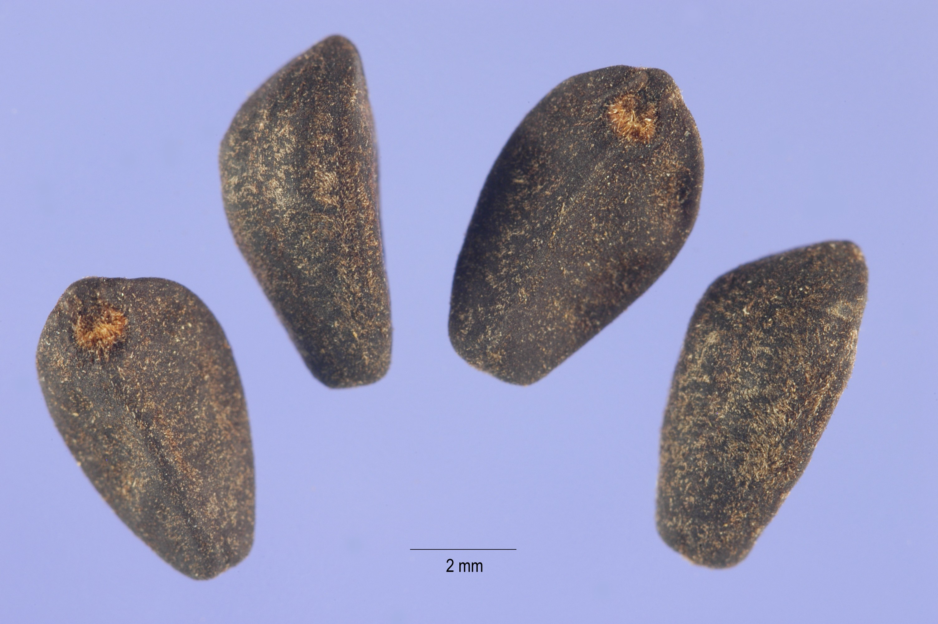 Ipomoea tricolor seeds. Provided by ARS Systematic Botany and Mycology Laboratory. Antigua and Barbuda, Antigua